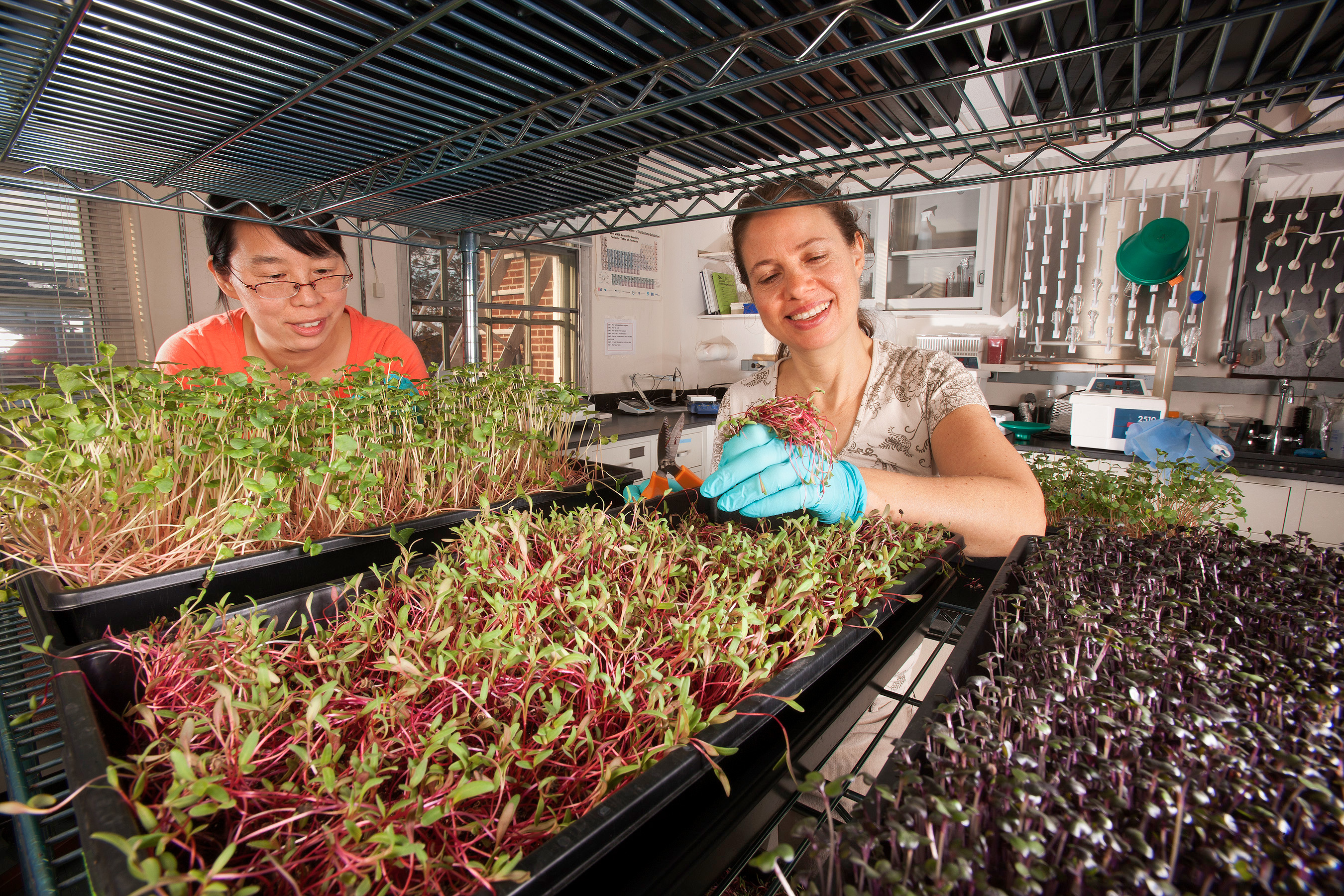 Liping Kou observes microgreens